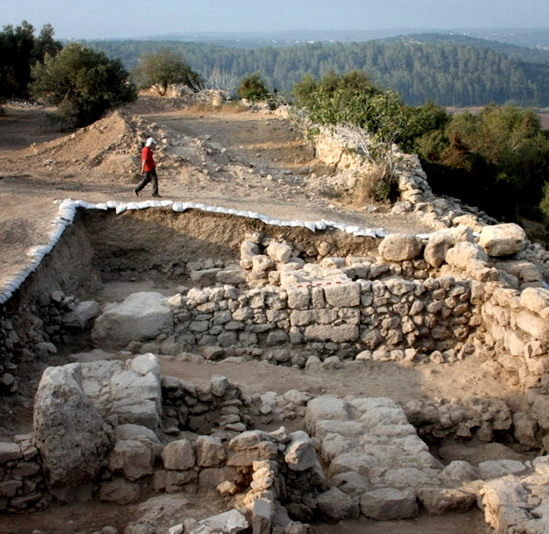 This is a cropped version of the photo by User YaelS, in Wikimedia Commons.